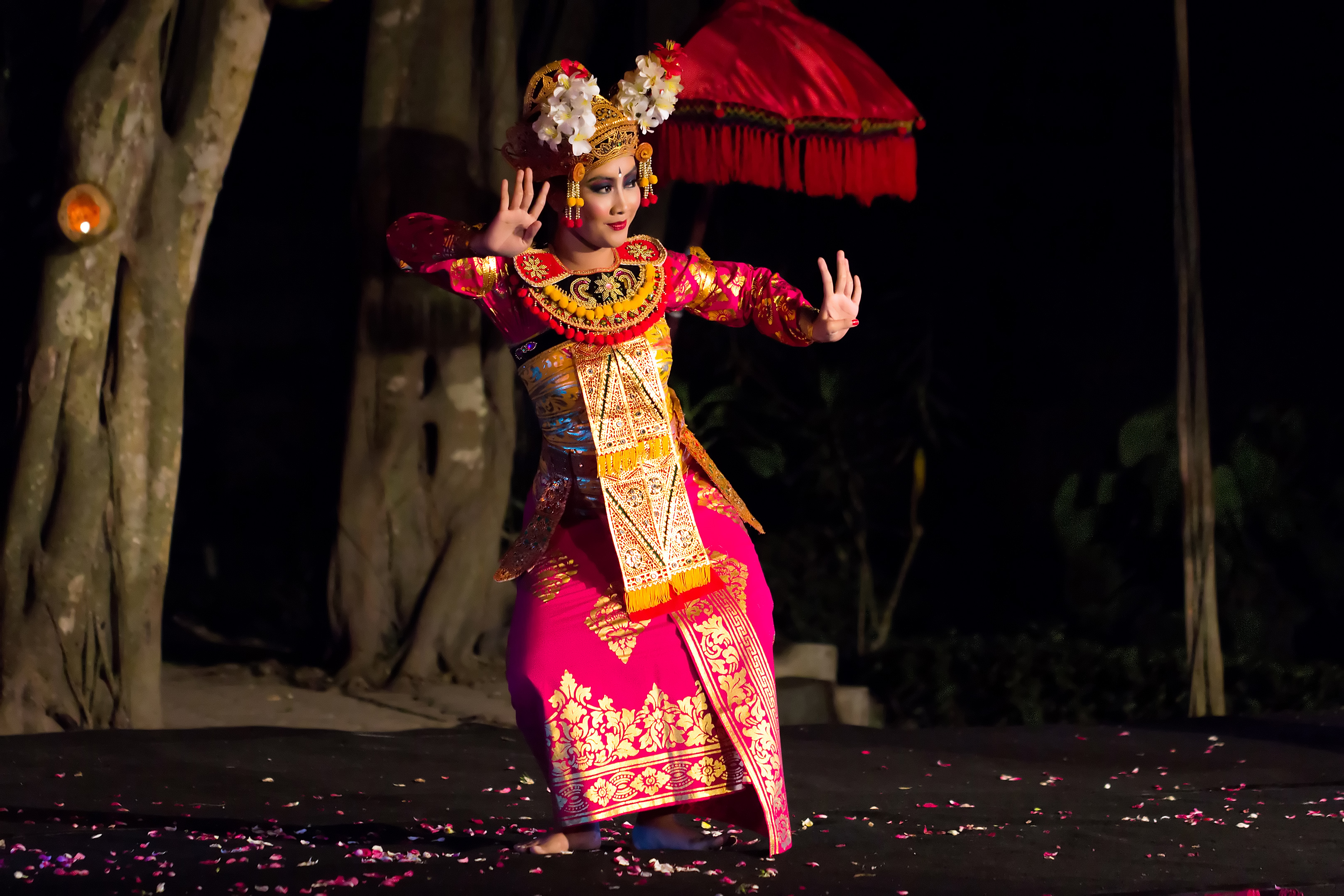 Sanata Dharma University's Sekar Jepun, a Balinese dance troupe, celebrates its 17th anniversary. This dancer is performing the Condong dance.